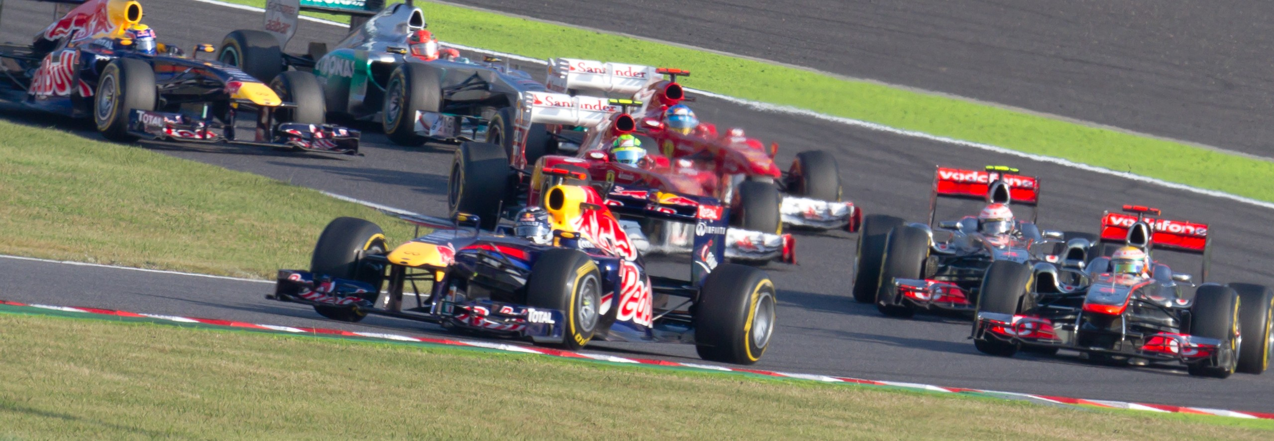 Formula One 2011 Rd.15 Japanese GP: opening lap